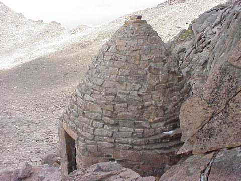 Exterior of the Agnes Vaille Shelter, located northwest of Longs Peak along the East Longs Peak Trail in the Larimer County portion of Rocky Mountain National Park in the U.S. state of Colorado. Built in 1927, it is listed on the National Register of Historic Places.